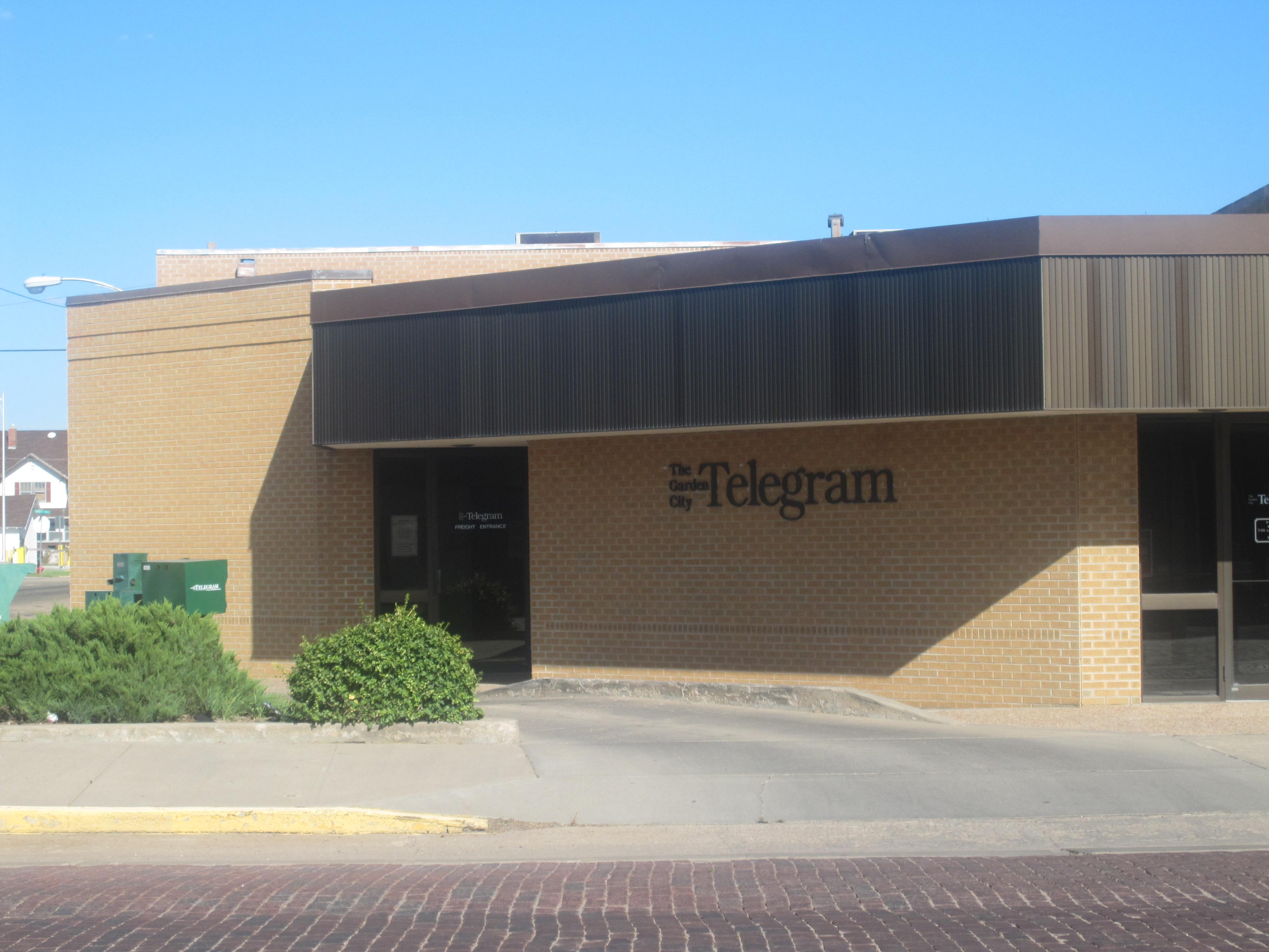 I took photo with Canon camera in Garden City, KS.